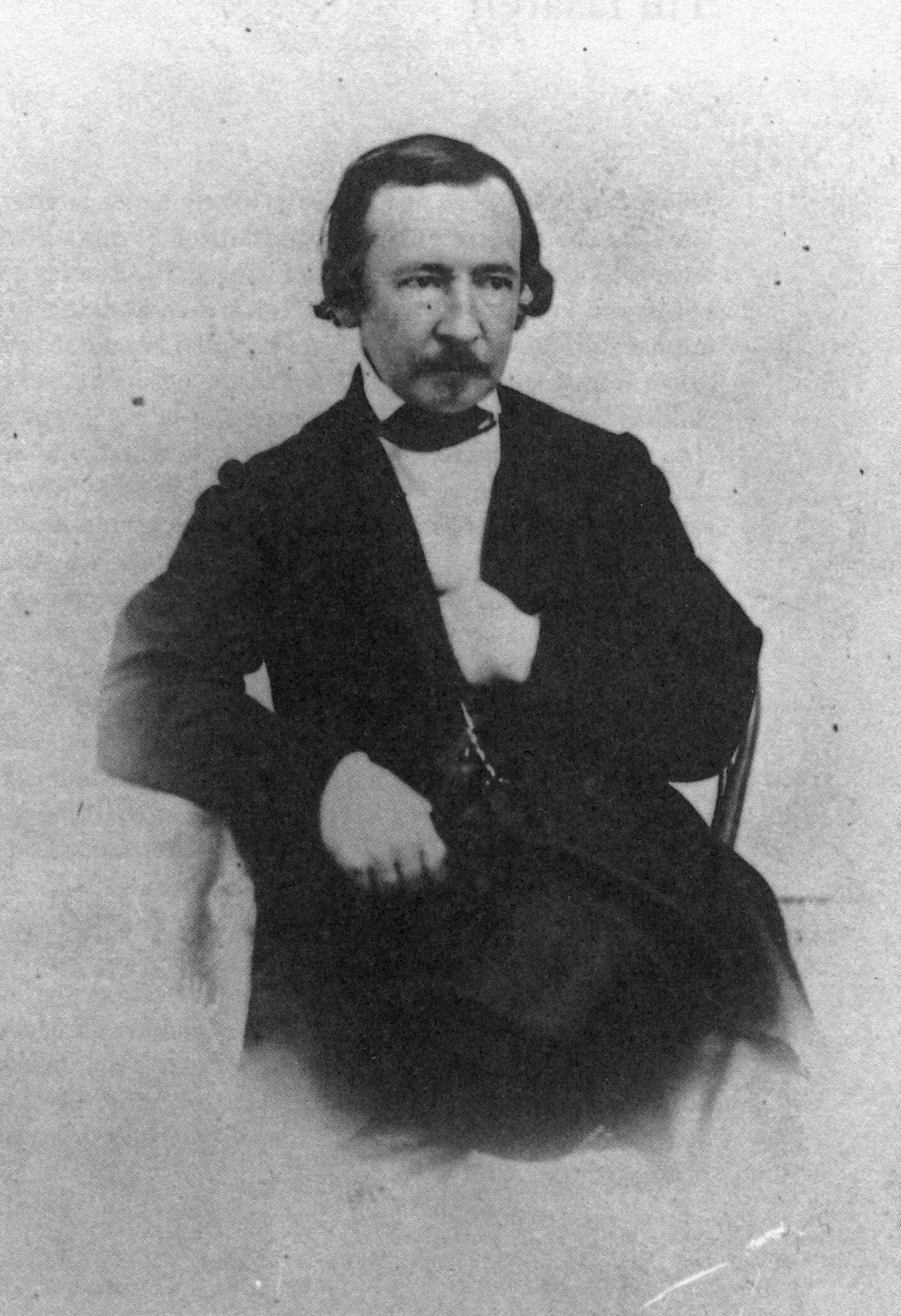 Zacharias Topelius.